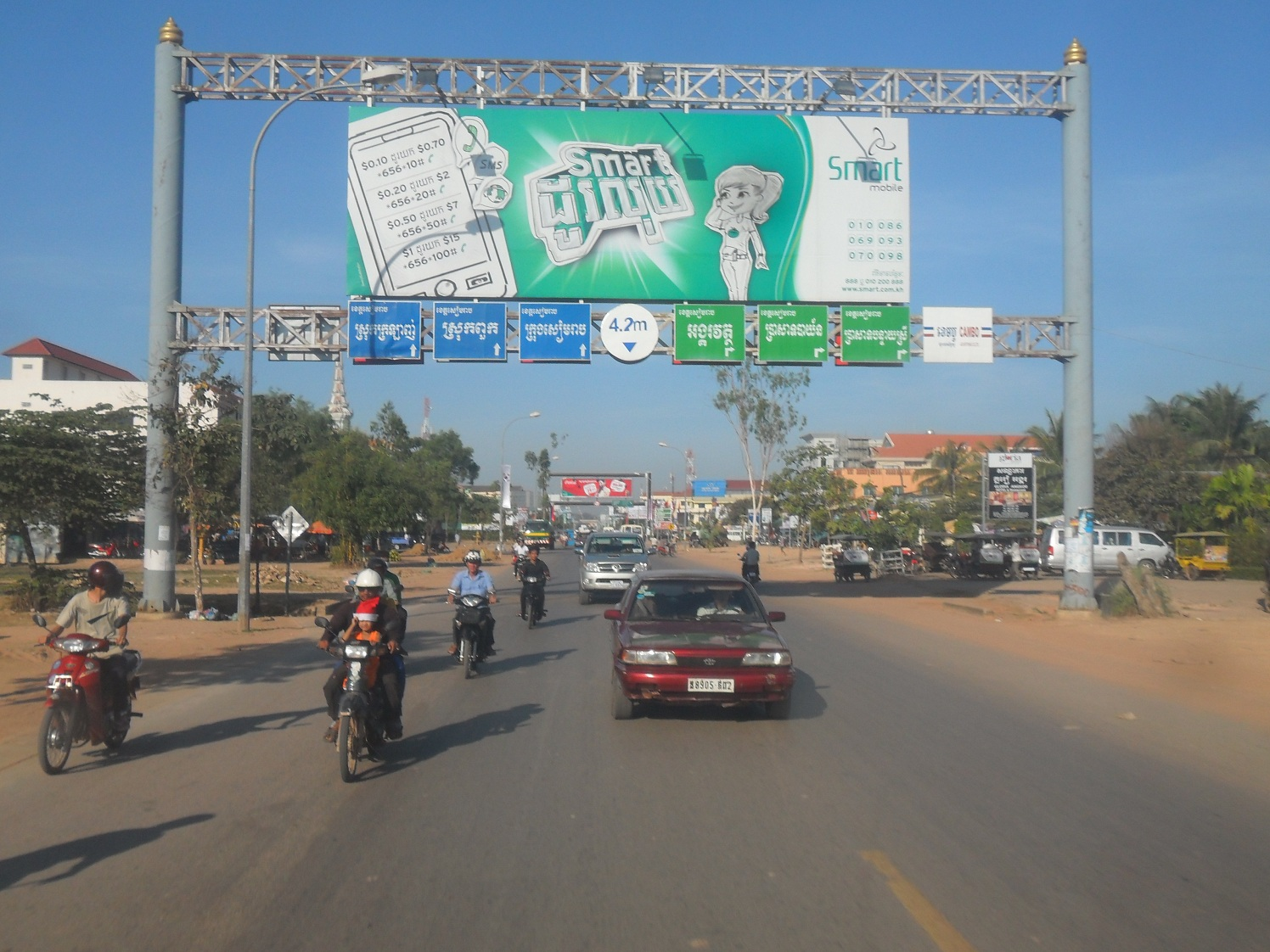 Highway No 6. at Siem Reap, Cambodia